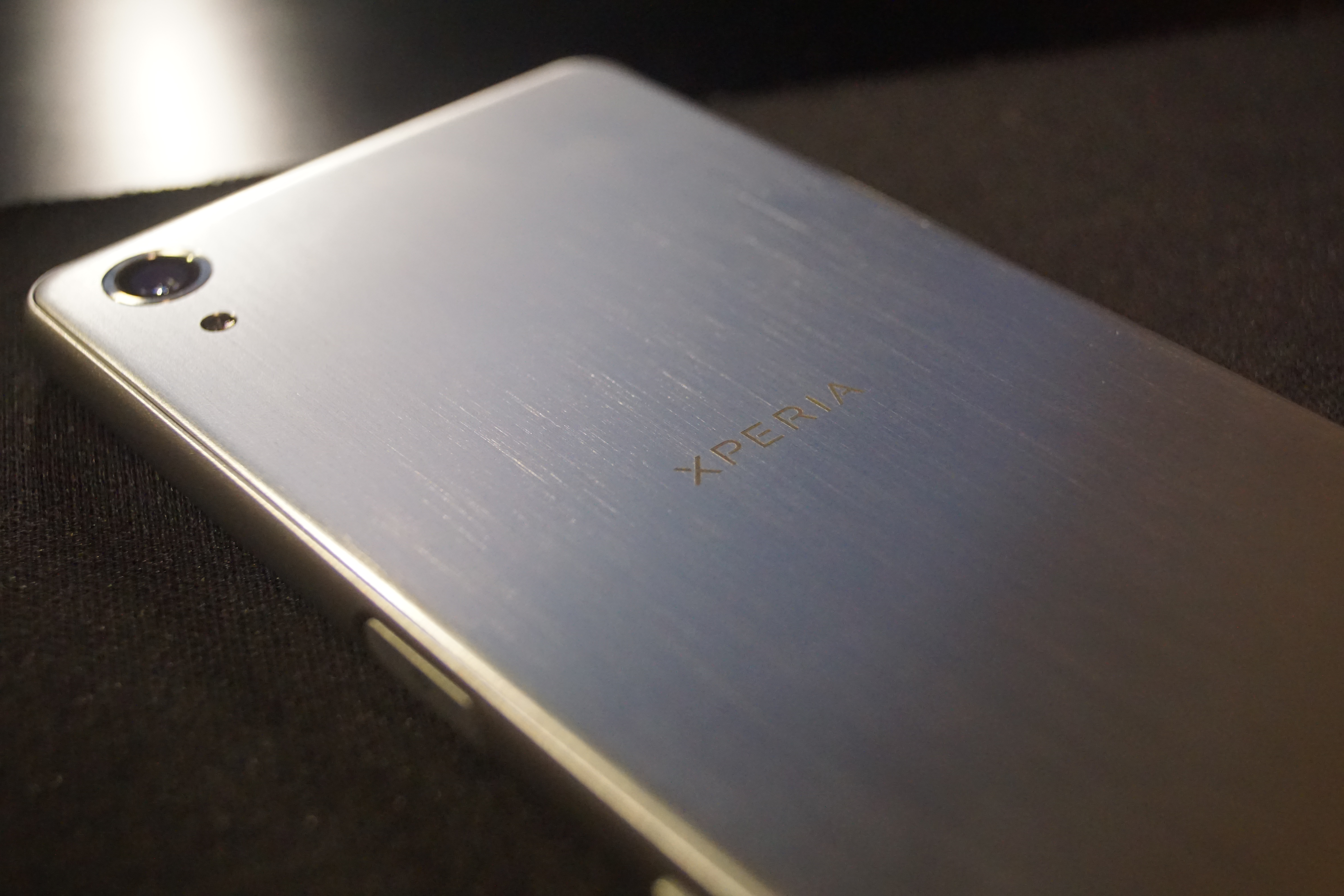 Sony Xperia X Performance Back, Taiwan Ver.